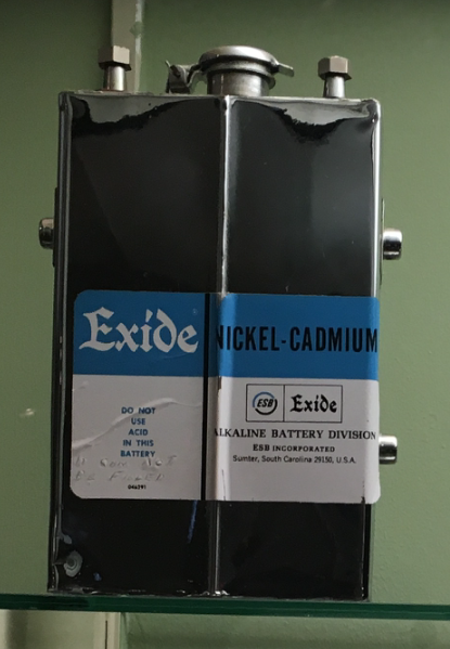 An Exide Nickel-Cadmium Battery in the Edison Ford Winter Estates Museum